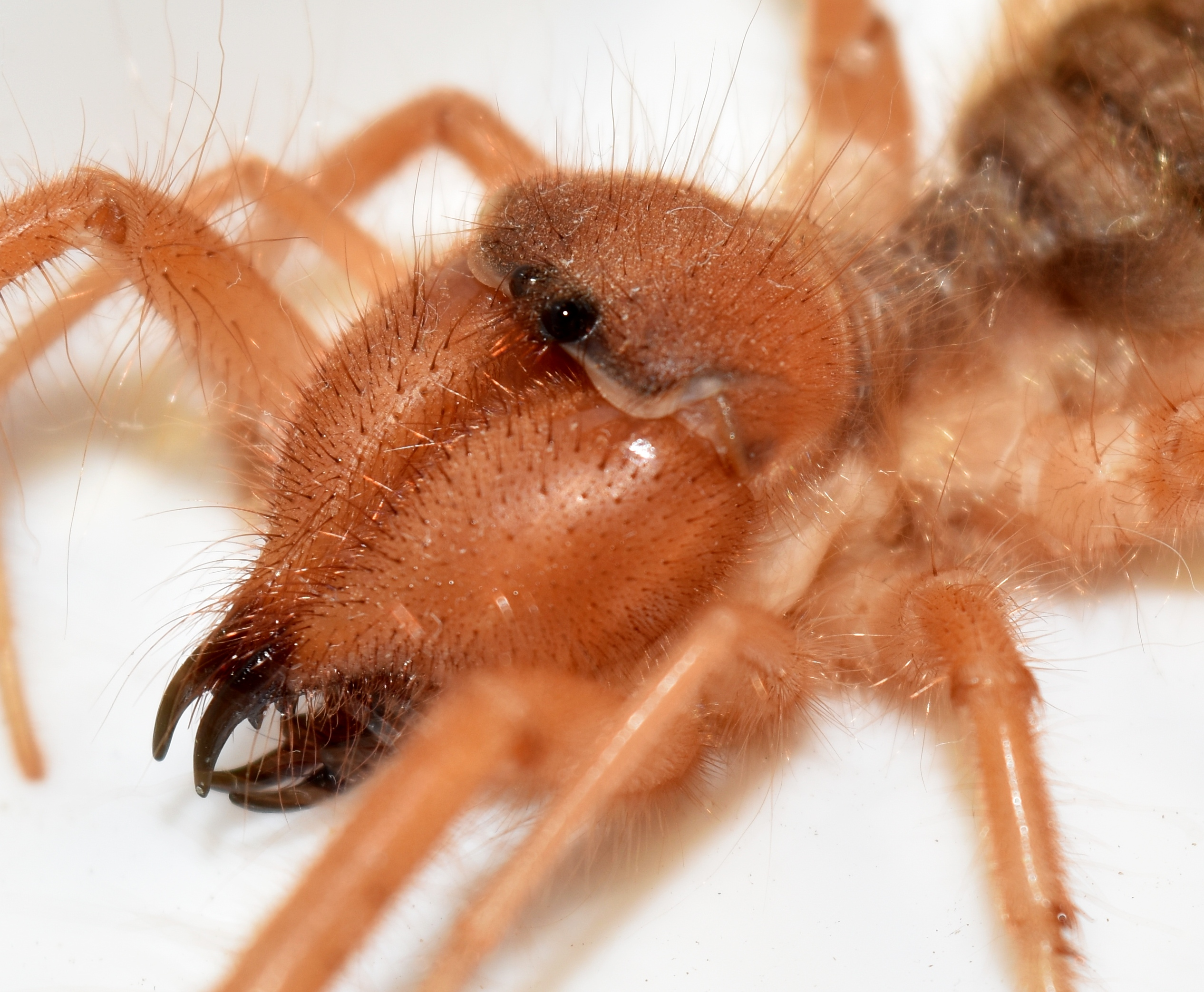 Red roman (as called in South Africa), otherwise known as a camel spider, wind scorpion, sun spider, etc.